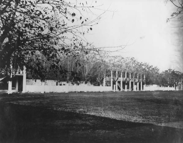 U.S. Barracks in New Orleans (since renamed Jackson Barracks), New Orleans, 1860s